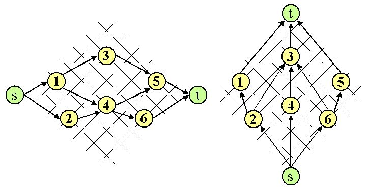 HV constraint graph.